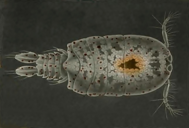 BHL - Sapphirina vorax Cut-out from original (N72 w1150 (17932671211).jpg) shown below